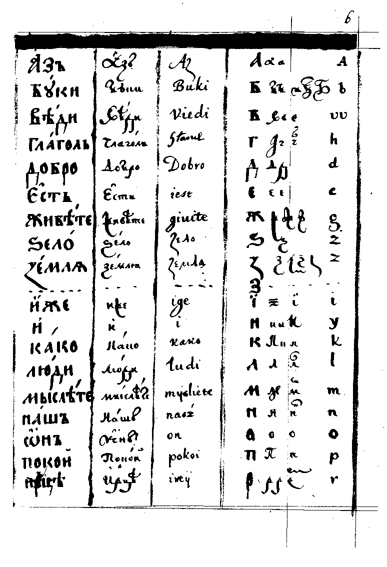 Ivan Uzhevych's Grammatica sclavonica, Arras manuscript: page 6b from the table of letters.